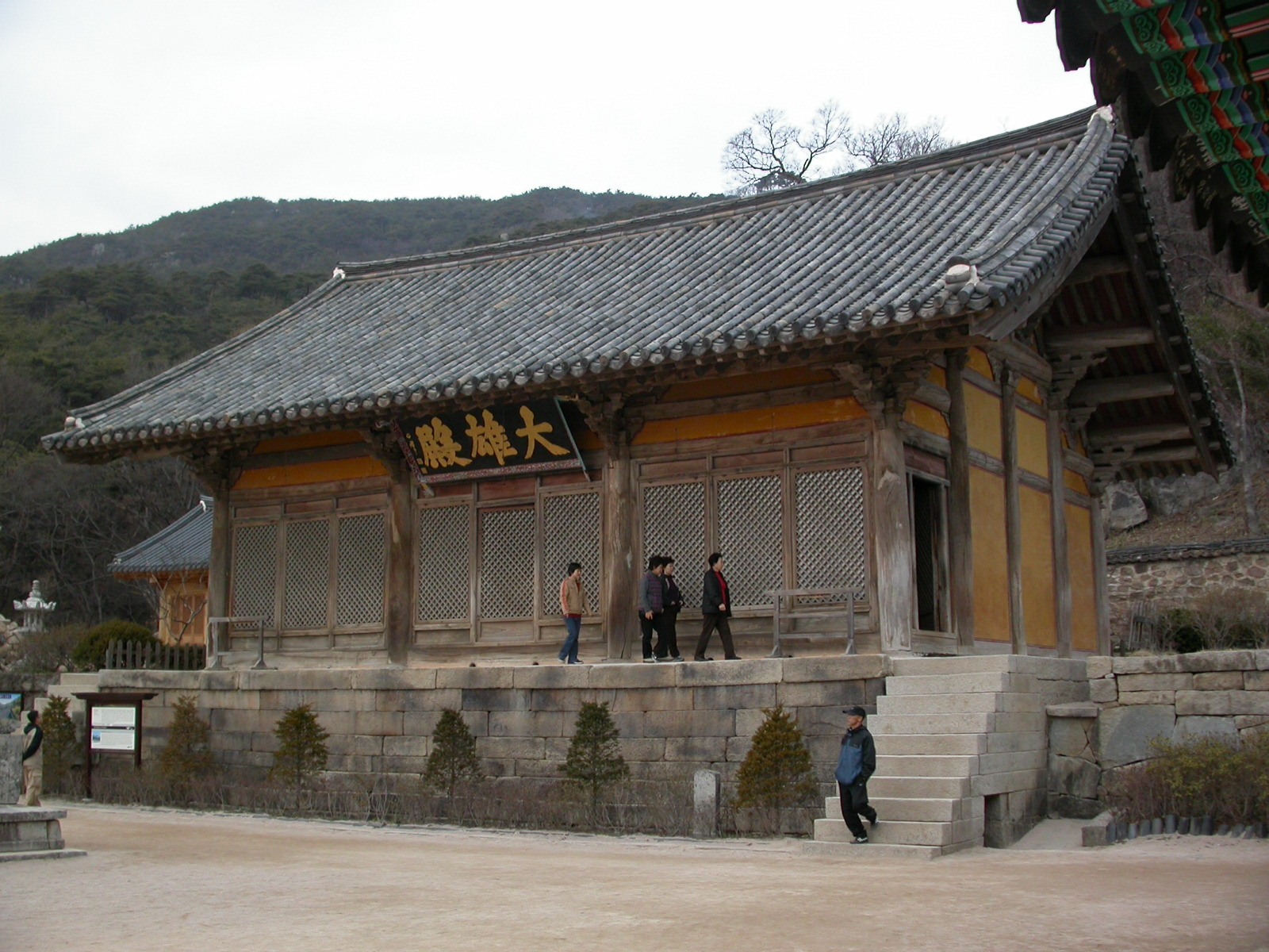 Sudeoksa